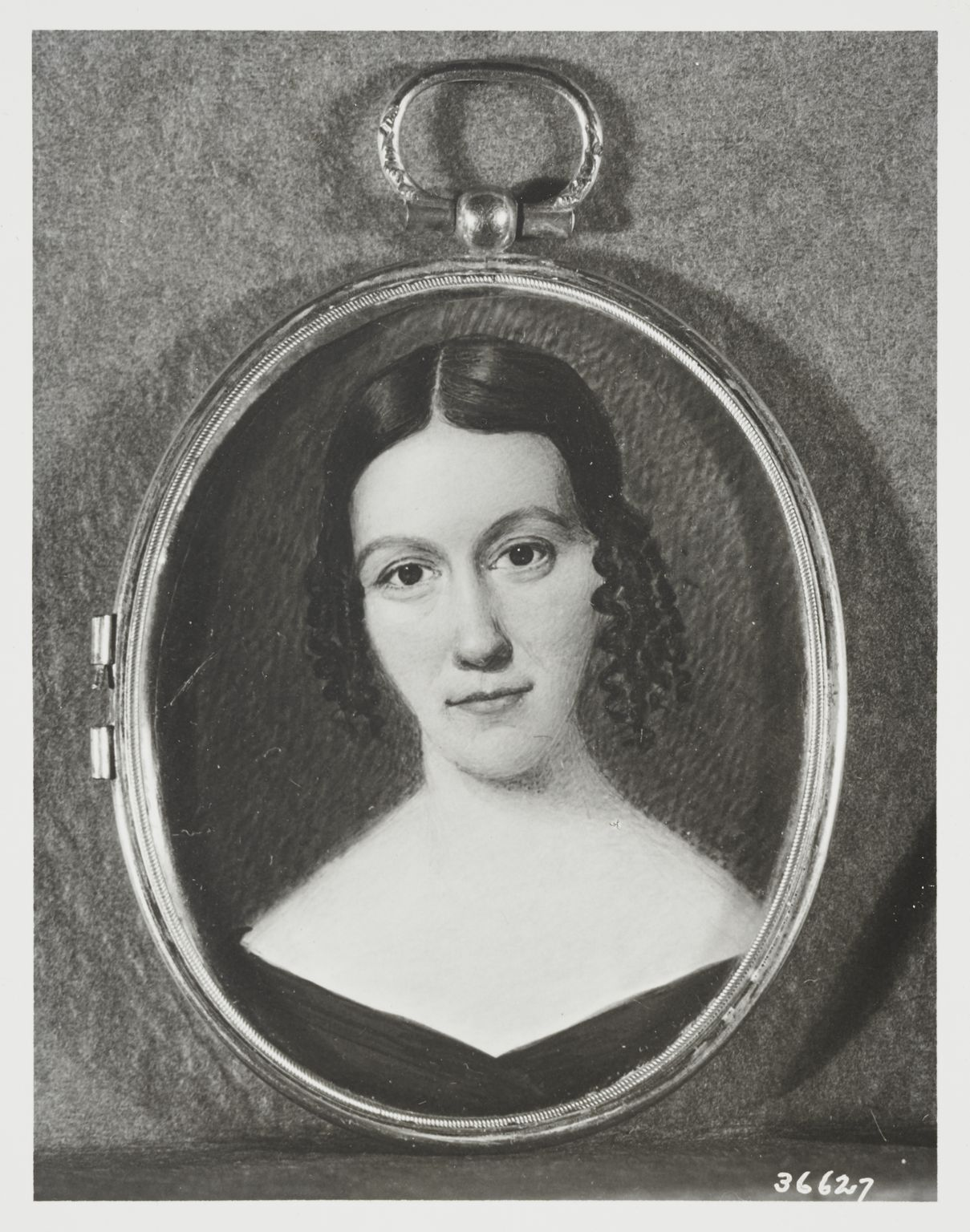 Title:Mrs. Benjamin Brown French (Elizabeth S. Richardson). Author/Artist:Blanchard, Washington S., 1808- Creation Date:1838 Description:Graphic reproduction(s) with documentation of a miniature. 2 1/2 x 2 in. on ivory. Provenance:Mr. Stuyvesant Le Roy French, New York, great-grandson of the subject. Current Repository:Stuyvesant Le Roy French, New York, New York, United States, private. Images:Photograph, Ira W. Martin 36627 Frick Art Reference Library, New York (FARL) negative. Subjects:Blanchard, Washington S., 1808- French, Elizabeth Smith Richardson, 1805-1861 Art, American Miniatures: Portraits: Women Genre/Form:American School. Miniatures (paintings) Paintings (visual works) Reproductions. Related Names:Frick Art Reference Library. Frick Name Form:Blanchard, Washington S., n.1808-op.1849.